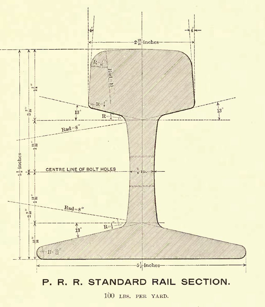 Cross-Section of Standard Rail, one hundred pounds to the yard, as used on the Pennsylvania Railroad in the 1890s.